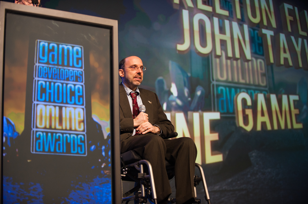 Kelton Flinn receving the “Online Game Legend award” at the Game Developers Choice Online Awards in 2011.